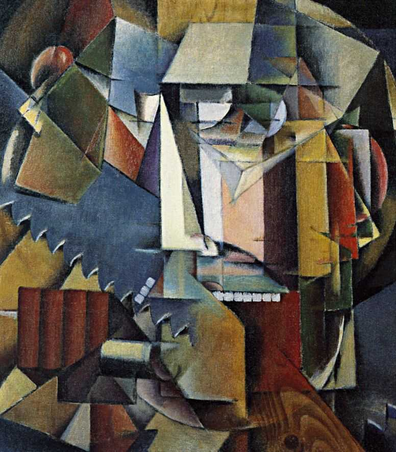 painting